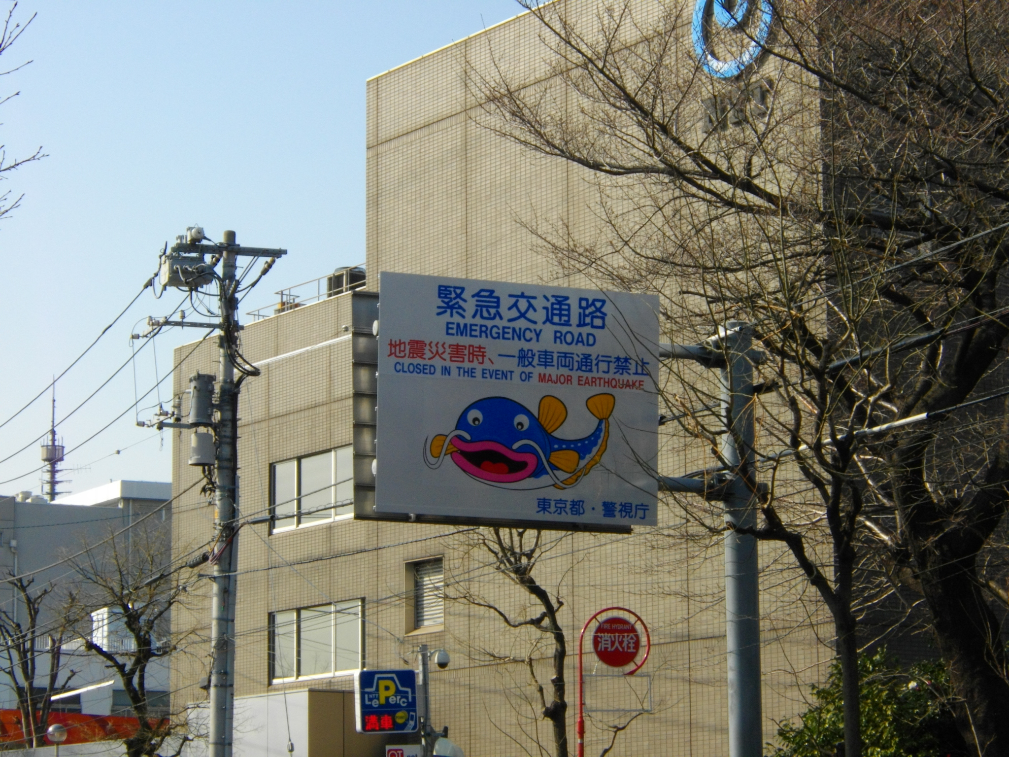 Emergency Road Sign in Suginami